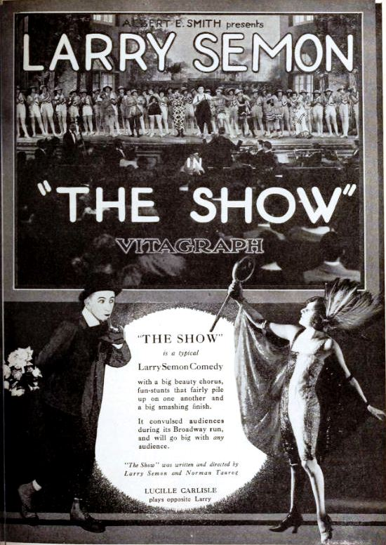 Advertisement for the American comedy short film The Show (1922) with Larry Semon and Lucille Carlisle, on page 11 of the February 25, 1922 Exhibitors Herald.